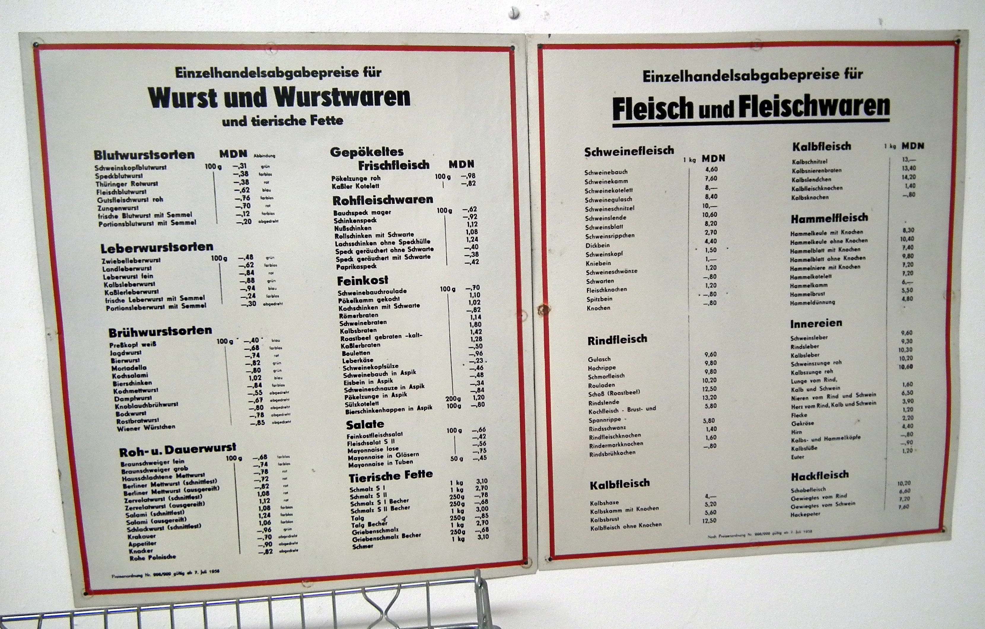 pricelist for meat in GDR